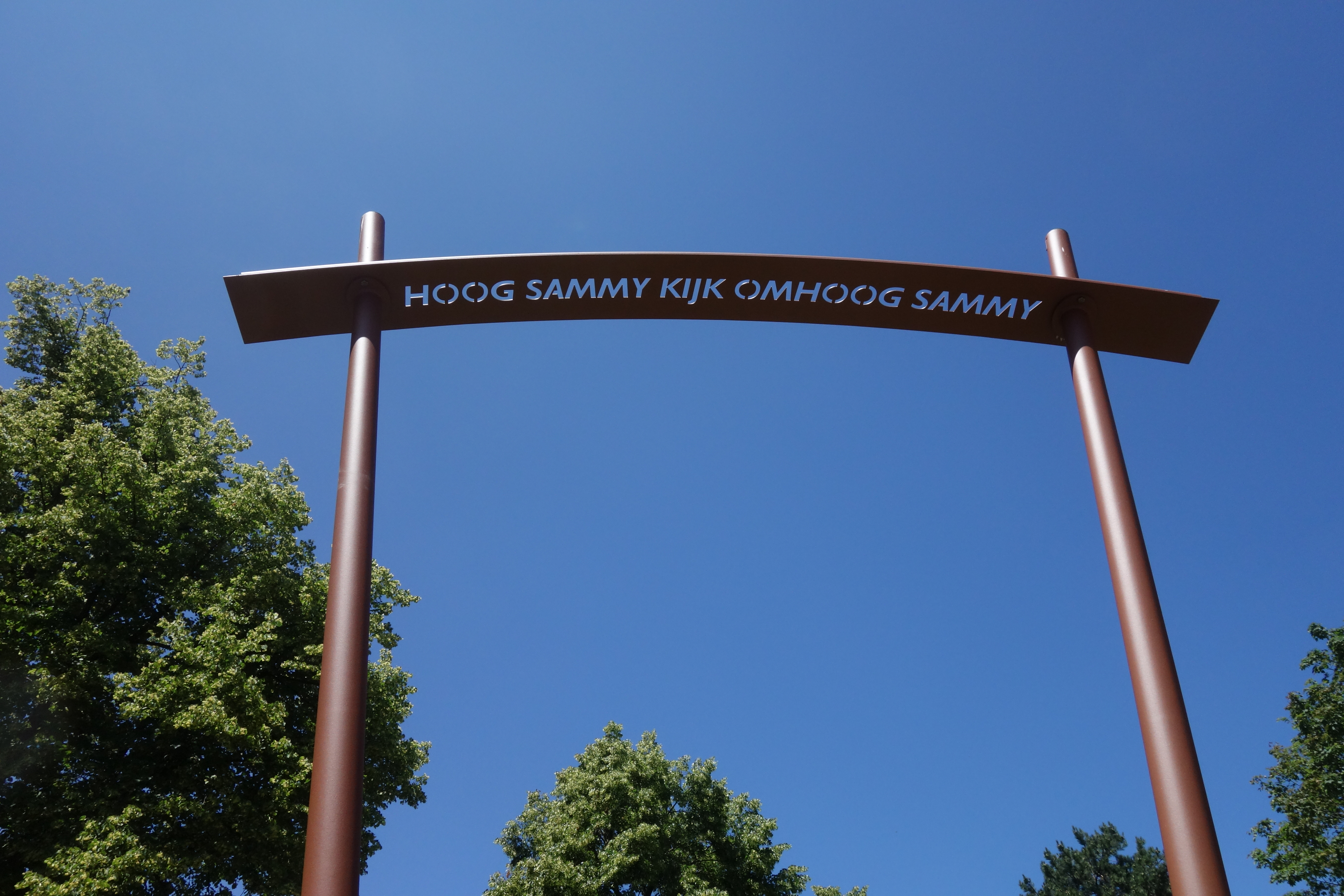 Sculpture "Hoog Sammy" by Janine Melai. Terweepark, Leiden (the Netherlands). Text reads: "Hoog Sammy, kijk omhoog Sammy". Unveiled 15 June 2019. Shaffy lived here (under his real name Didi Snellen) as a stepson to Herman and Roos Snellen from March 1940 to 1952